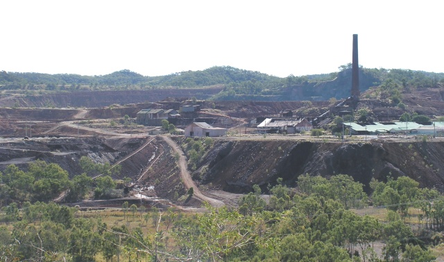 Mt Morgan minesite, May 2005 photo 18/5/2005